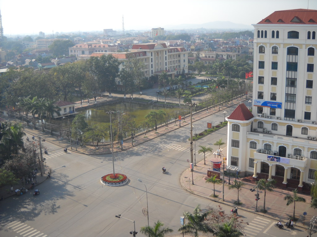 Post Office of Bắc Giang, Vietnam